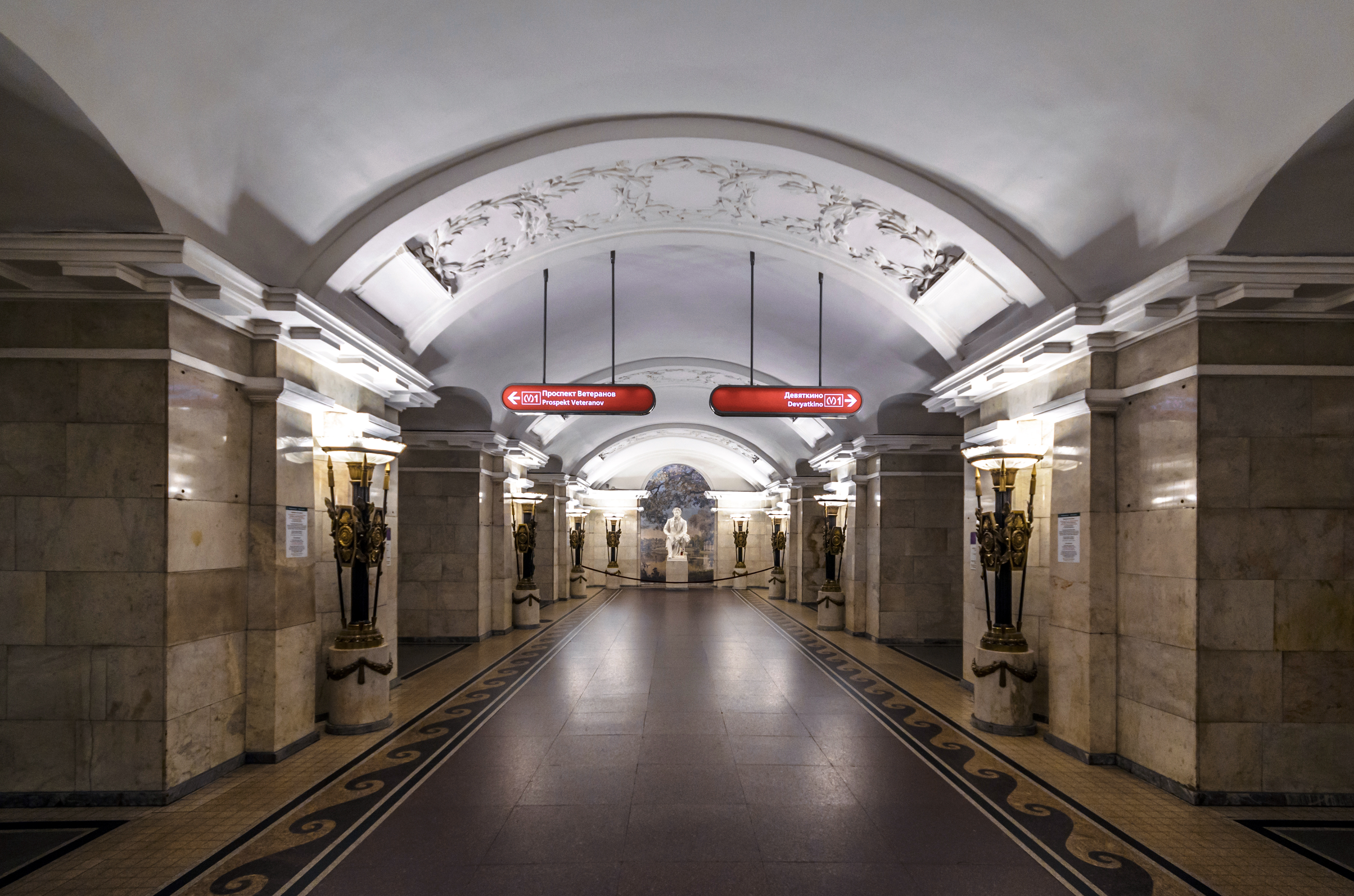 Pushkinskaya station of Saint Petersburg Metro